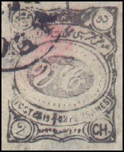 Local post stamp issued in 1902 in Mesched, Iran.